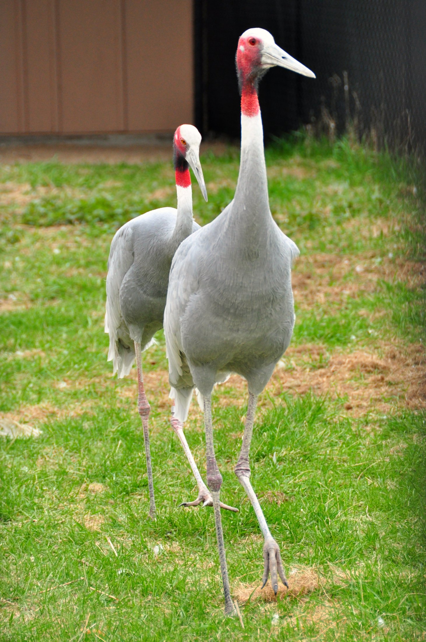 Grus antigone Standing nearly six feet, the Sarus is the tallest flying bird in the world. Its range is across northern India, with other pockets in southeast Asia and Australia. They are revered across India for their faithful pair bonds. The International Crane Foundation has been an important component of Sarus Crane habitat conservation in Vietnam.